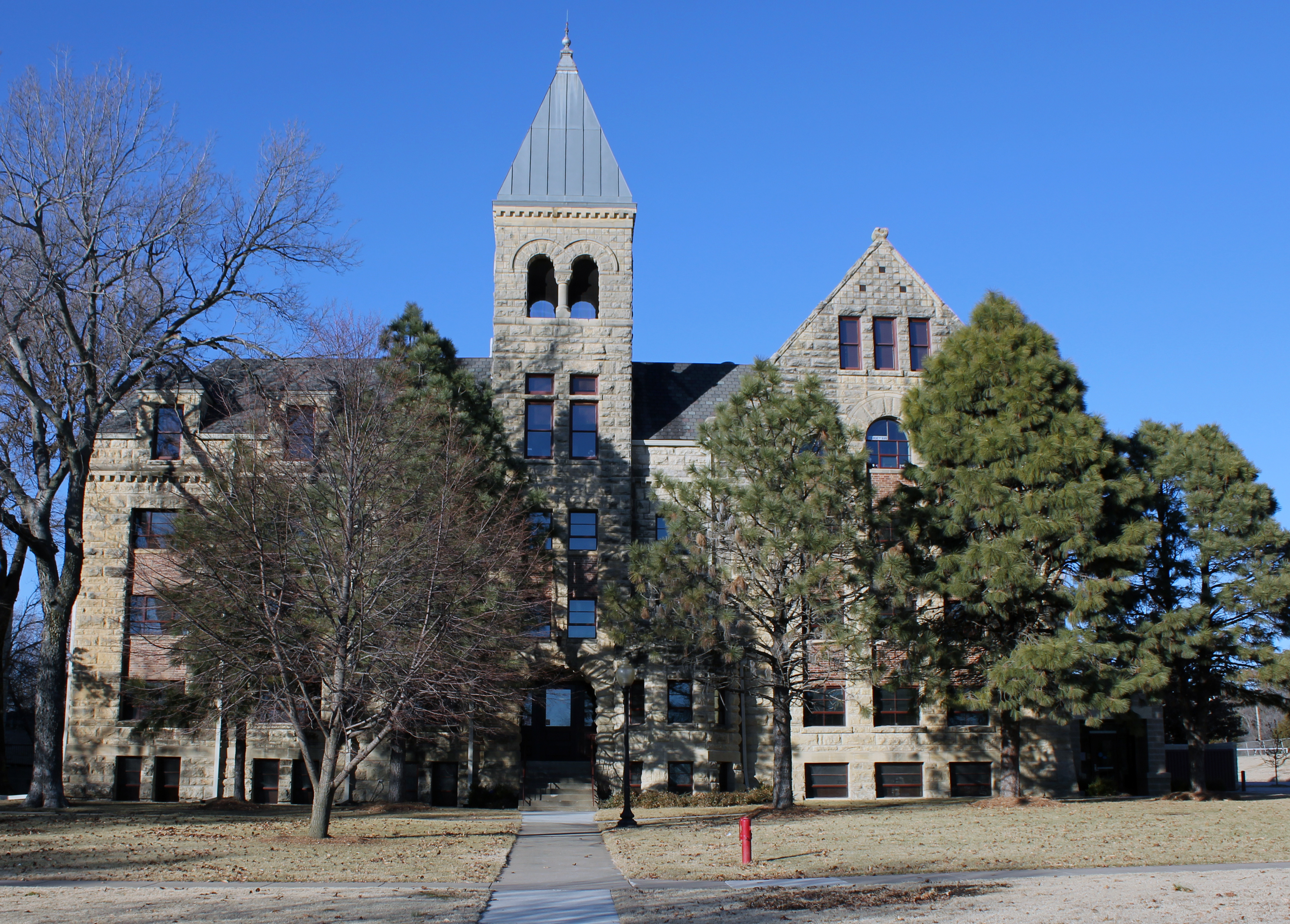 St. John's Lutheran College-Baden Hall, located at Seventh Avenue and College Street in Winfield, Kansas. The property, now converted to apartments, is listed on the National Register of Historic Places.